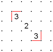 A drawing of a part of a Slitherlink game, showing how a diagonal line of 2's with a 3 at each end leads to the outside edges of the 3's being filled.